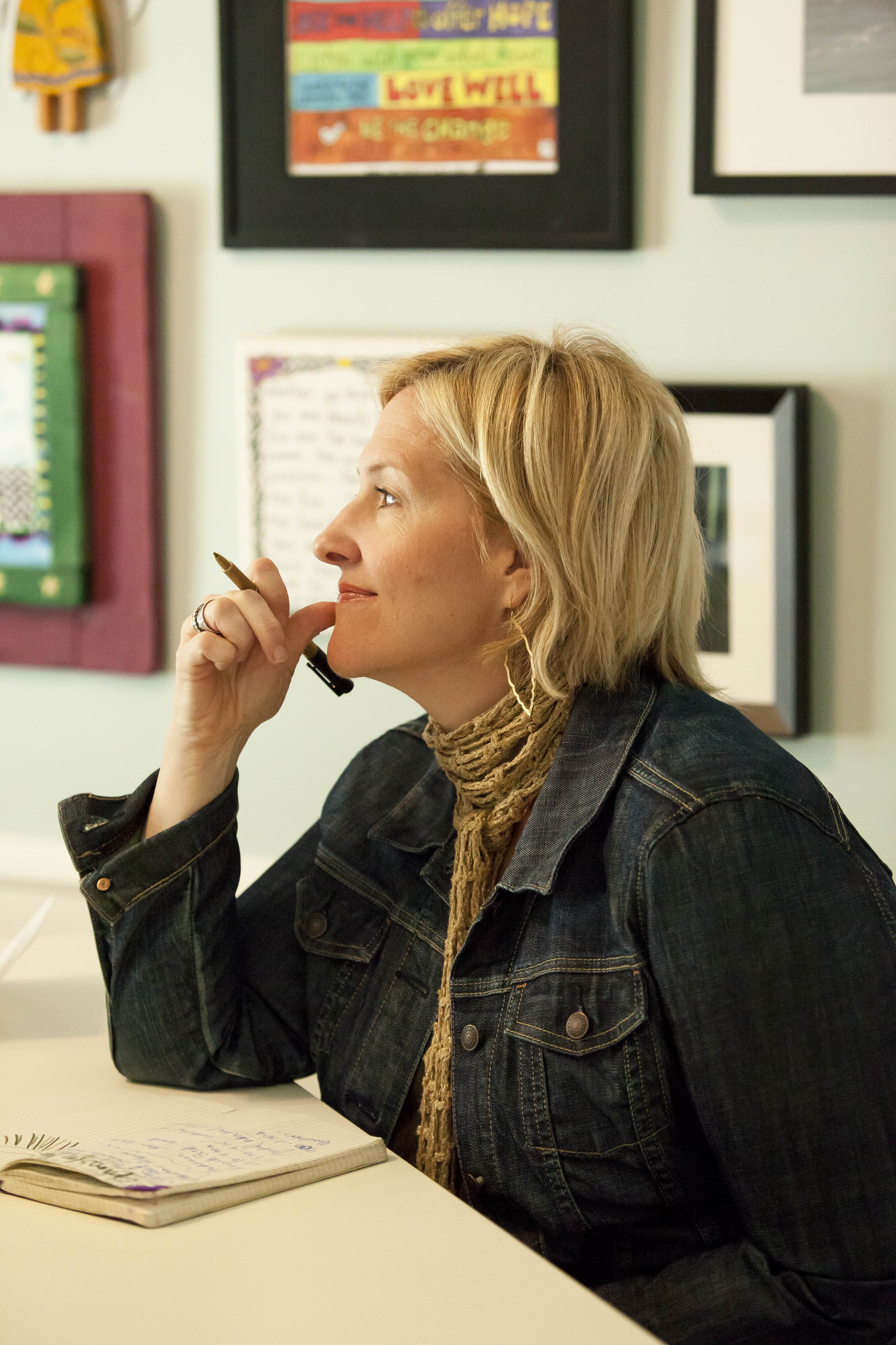 Photo of the author, researcher, and storyteller Brené Brown.